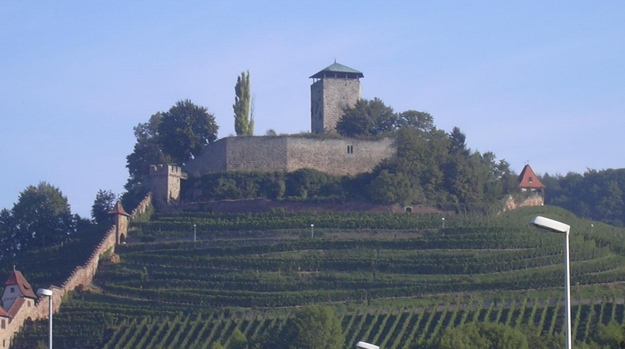 Castle Hohenbeilstein, Germany